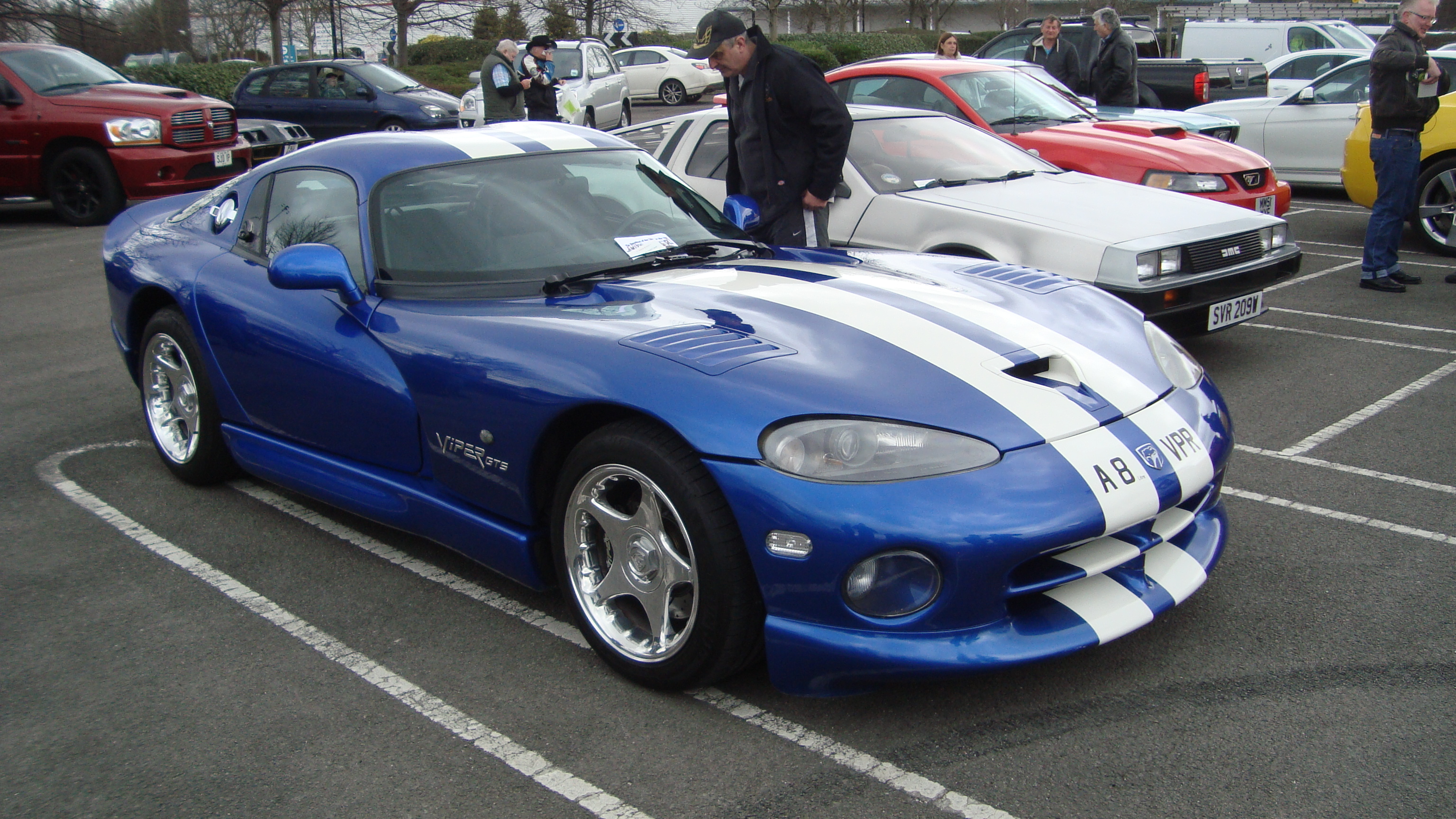 My dream car as kid, still pretty close to the top of that list now!